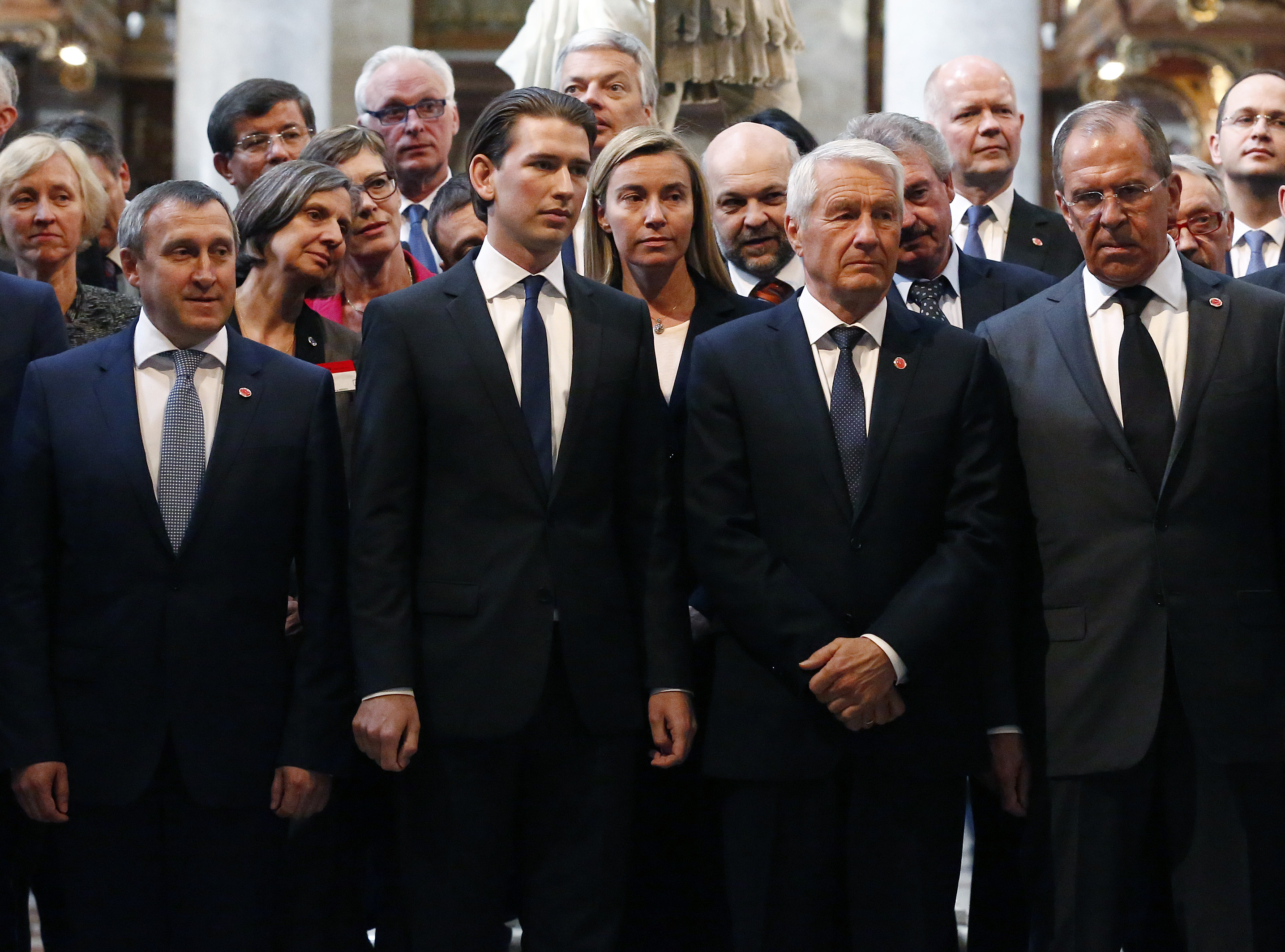 124th Session of the Committee of Ministers. First row from left to right: FM Andrii Deshchytsia (Ukraine), FM Sebastian Kurz (Austria; chairman), Secretary General of the Council of Europe Thorbjørn Jagland, FM Sergey Lavrov (Russia)